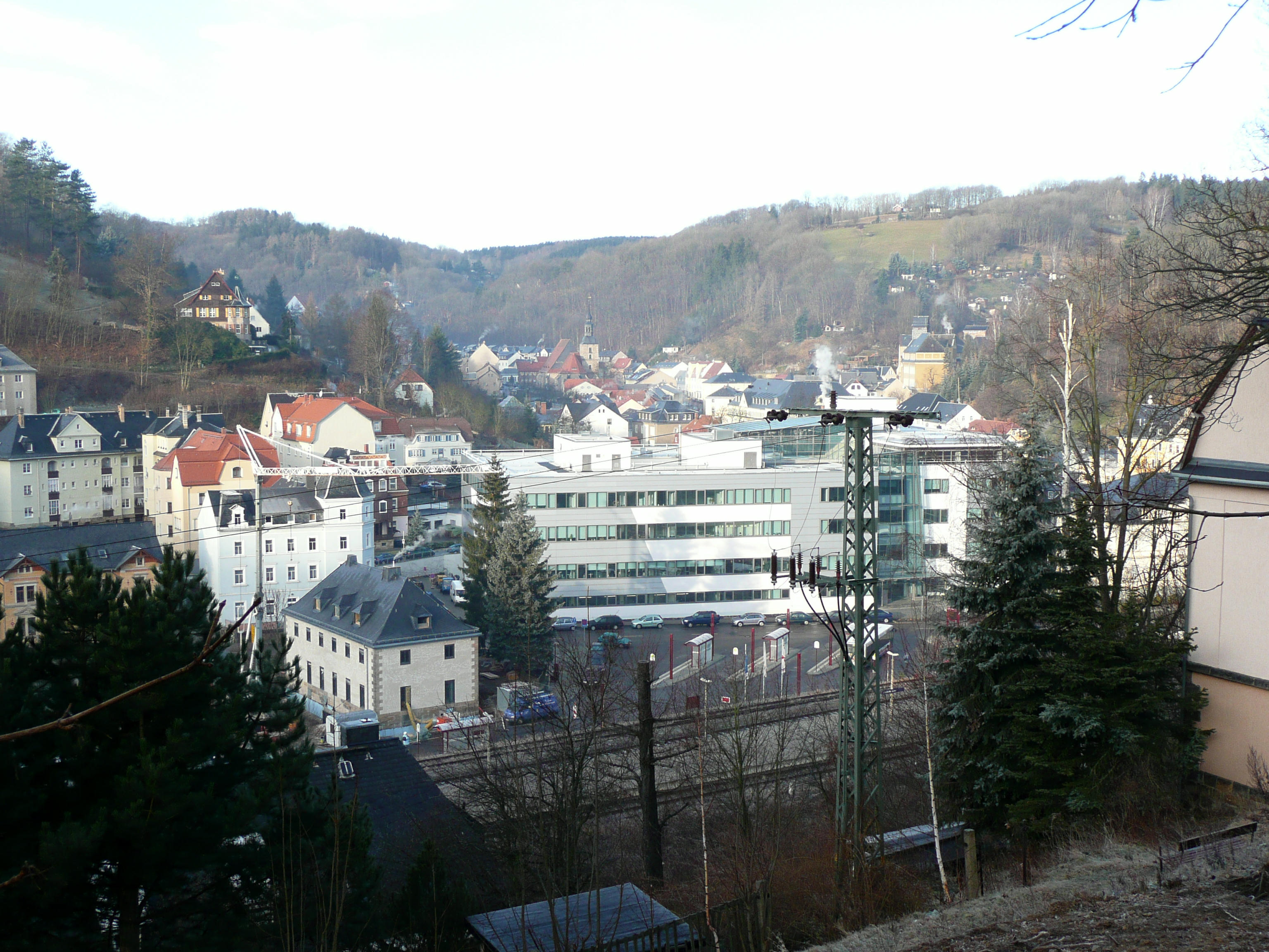 This image shows Glashütte.